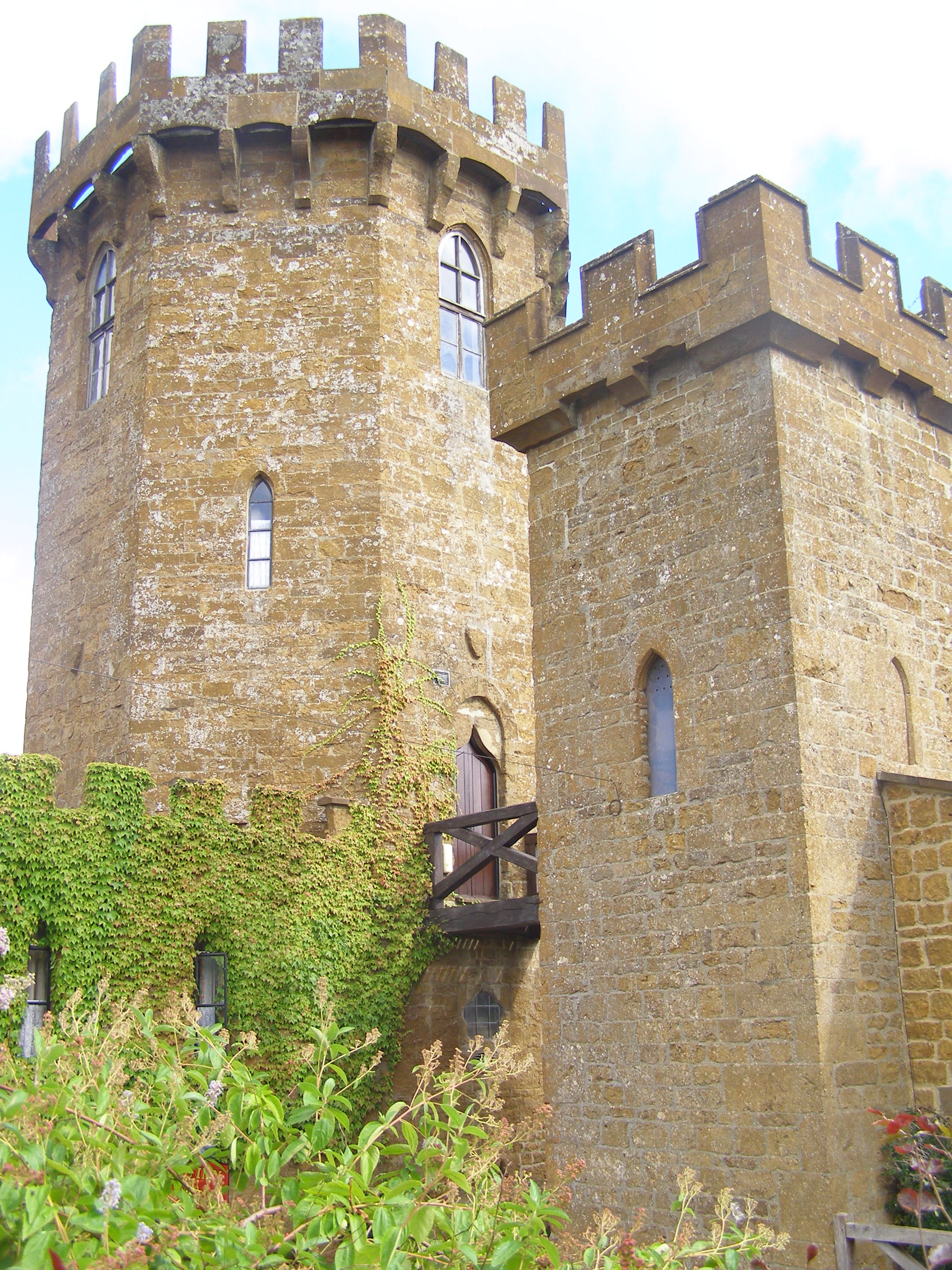 The folly tower in Radway, Warwickshire, designed as a fake ruin by Sanderson Miller.